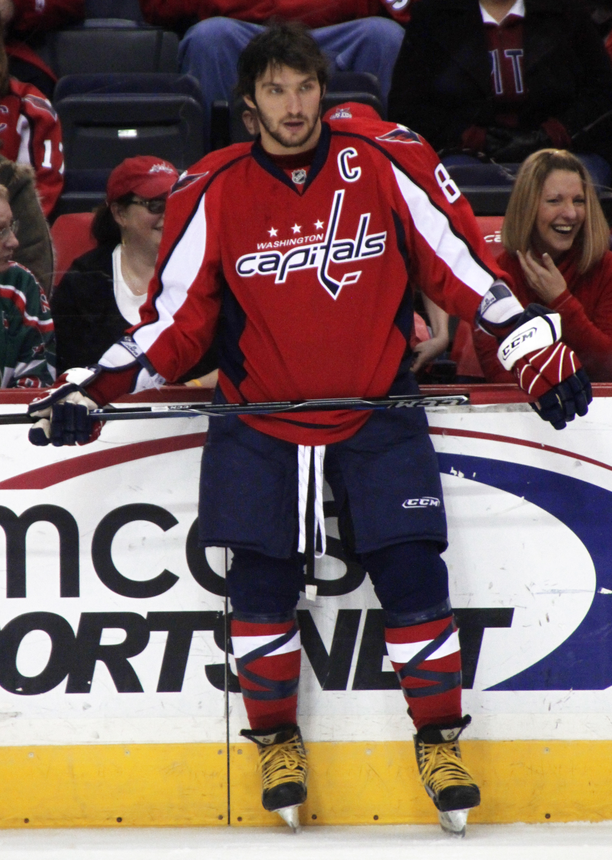 Alex Ovechkin, warmups.